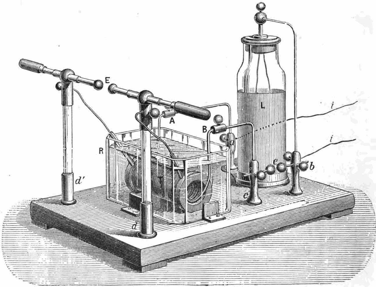 Small medical Tesla coil used for electrotherapy around the turn of the century, manufactured by the Eugene Ducretet firm of Paris. The coil itself (T) is immersed in a tank of oil to prevent current leakage due to corona discharge. It is connected to a Leyden jar (L, right) to make a tuned circuit, and a spark gap (e), powered by a Ruhmkorff coil (not shown) One of the high voltage terminals (E) is attached through a wire to a pointed electrode on an insulated wand which produces a brush discharge which is applied to parts of the patients' body to treat various ailments. The other high voltage terminal is attached to a ground electrode which the patient holds.